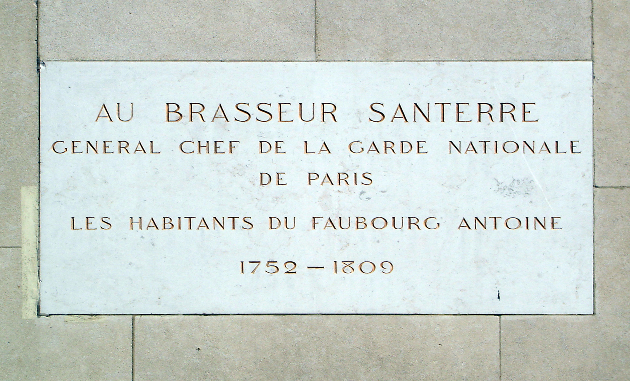 Rue de Reuilly( Paris -12e arrondissement): Commemorative plaque for the brewer Santerre, chief general of the National Guard during the French Revolution.